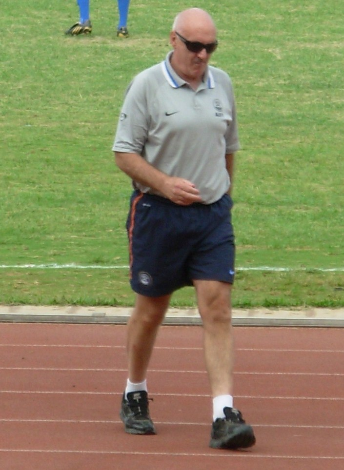 Desmond Donaldson "Des" Bulpin is a British football coach who currently manages the Indian Arrows, a national U-21 team in India. He holds a UEFA A-Licence and has wide-ranging experience working in the Premiership, Championship and Non-League at first team, reserve team and youth team level.